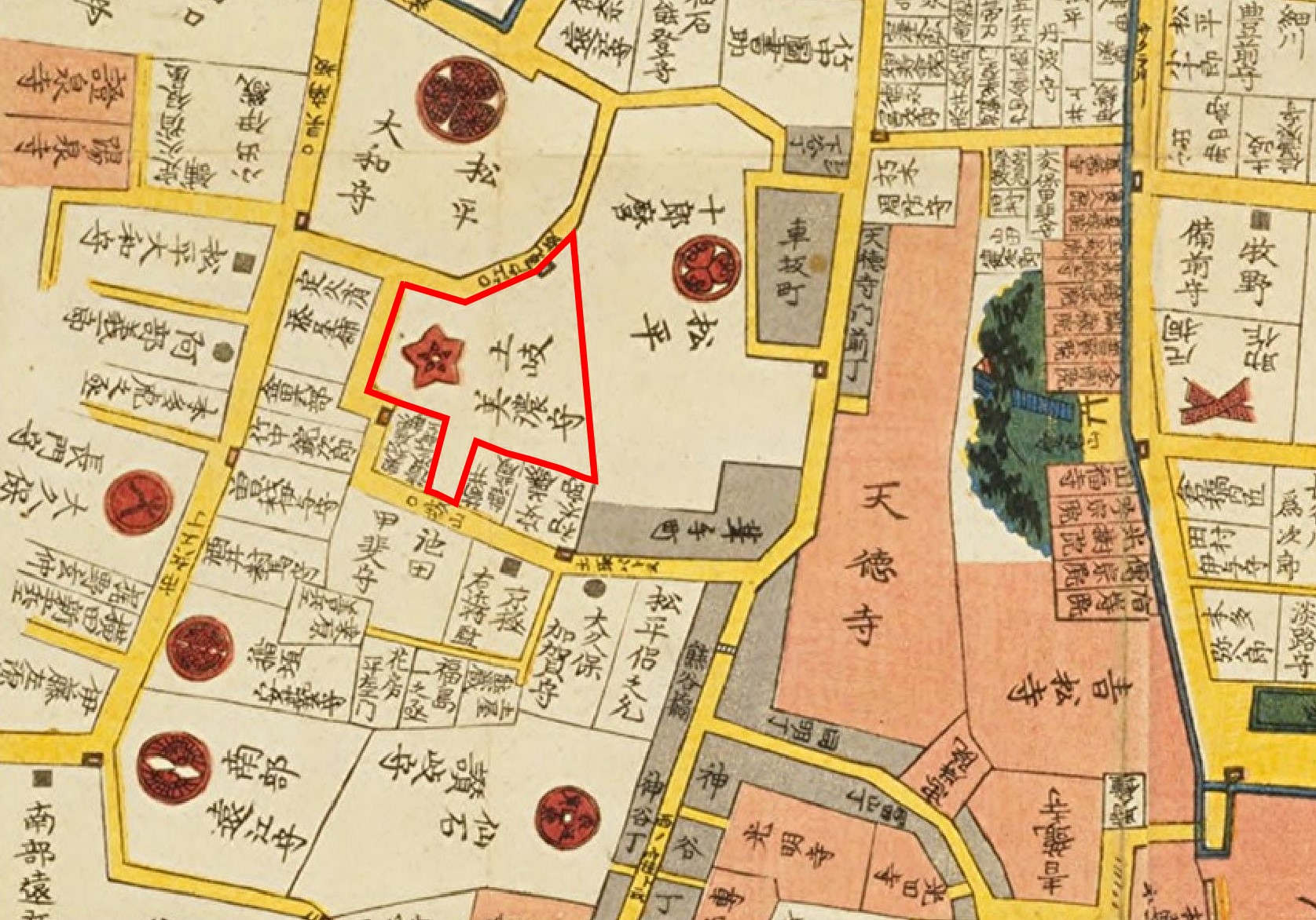 Residence of Toki clan at Edo